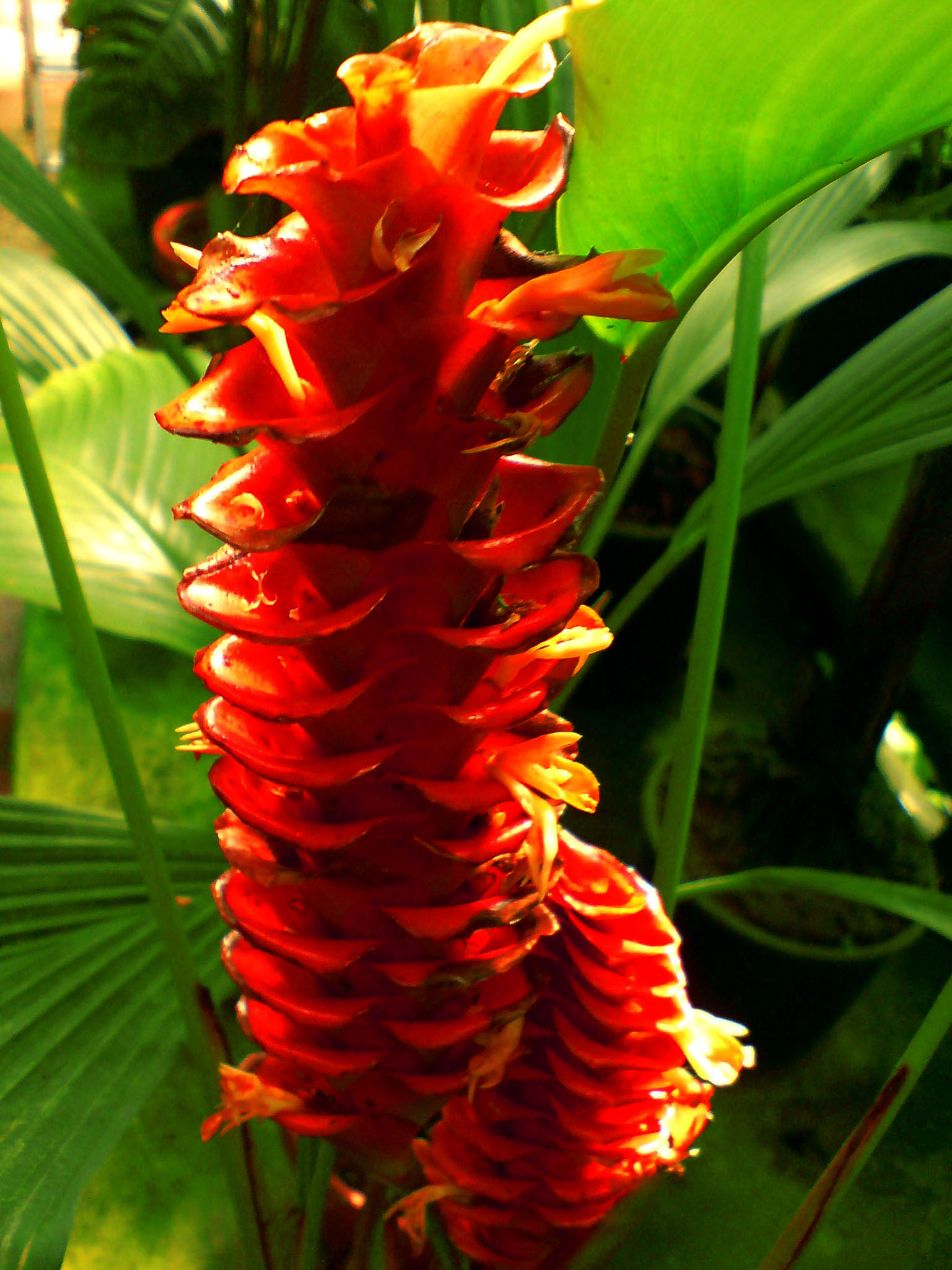 Ischnosiphon spec. - Botanical Garden Göttingen (Miserable ph*t*sh*pping because original image way too dark)